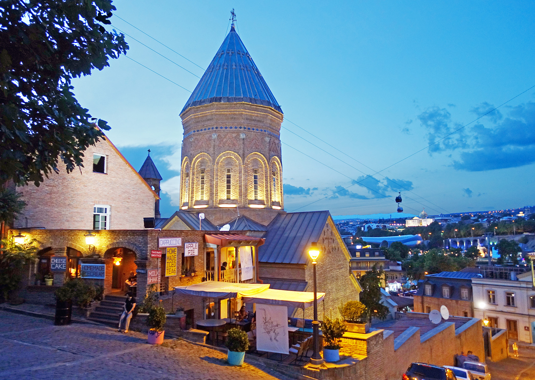 Saint George's Church in Tbilisi, Georgia.